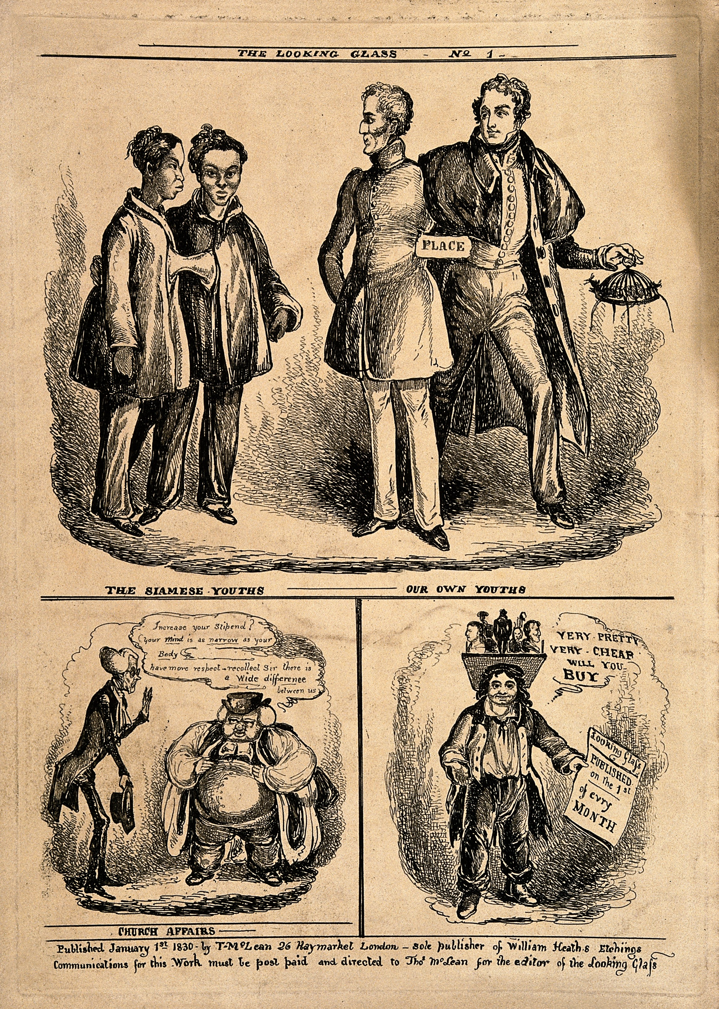 Three contemporary themes used to create political satire. Etching by W. Heath, 1830, after himself. Iconographic Collections Keywords: William Heath; police - uniforms; Robert Peel; Chang and Eng Bunker; siamese twins; Arthur Wellesley; costume - history - 19th centu; bunker, chang and eng, 1811-18; George IV; politicians; rats - control; peel, robert, sir. second baro; wellesley, arthur, duke of wel